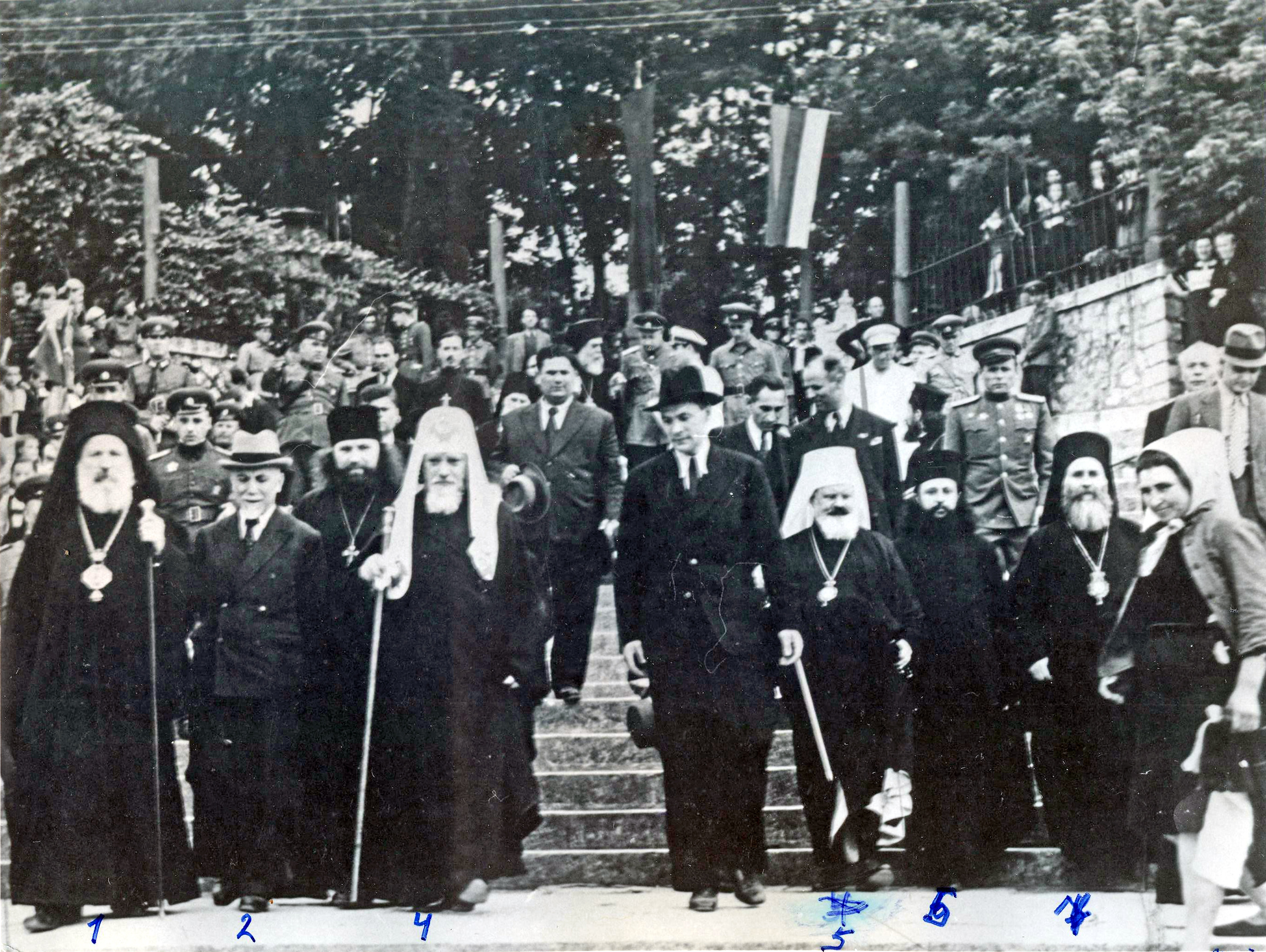 1. Eulogius of Sliven, 2. Dimo Kazasov, 4. Patriarch Alexius of Moscow, 5. Exarch Stefan, 6. Arhimandrite Alexander, 7. Philaret of Lovech